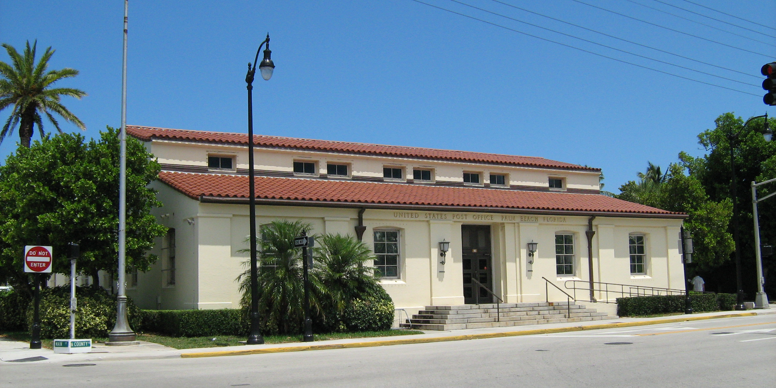 Main Post Office in the Town of Palm Beach, Florida (located at 95 North County Road) front entrance.